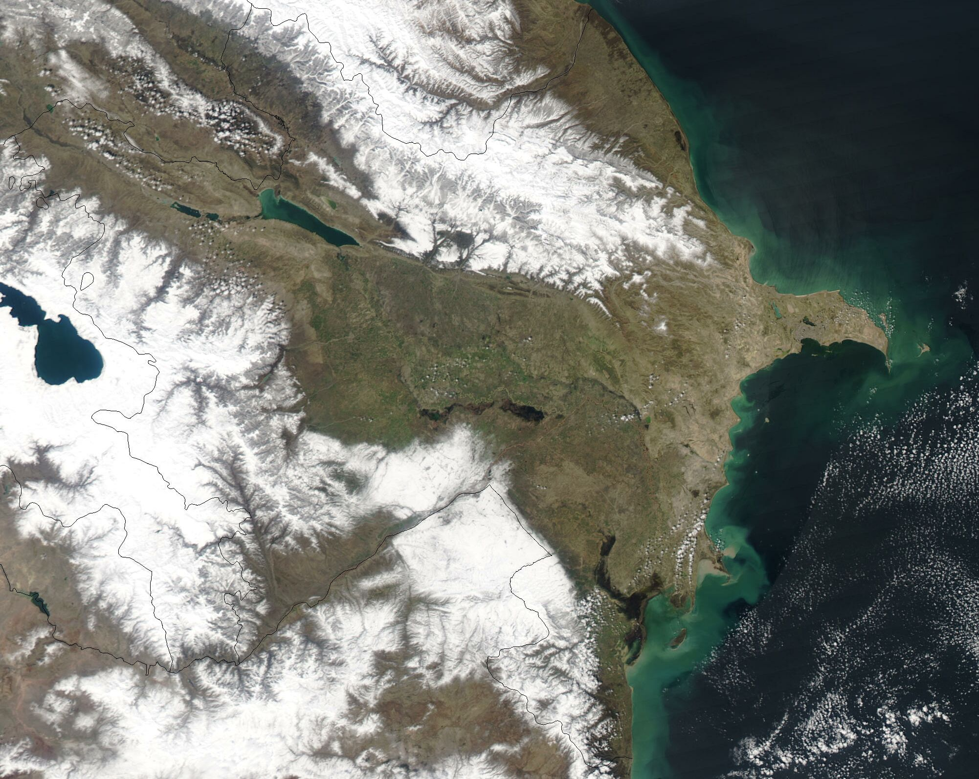 A cropped satellite image showing Azerbaijan in March 2003. |Satellitenbild von Aserbaidschan.